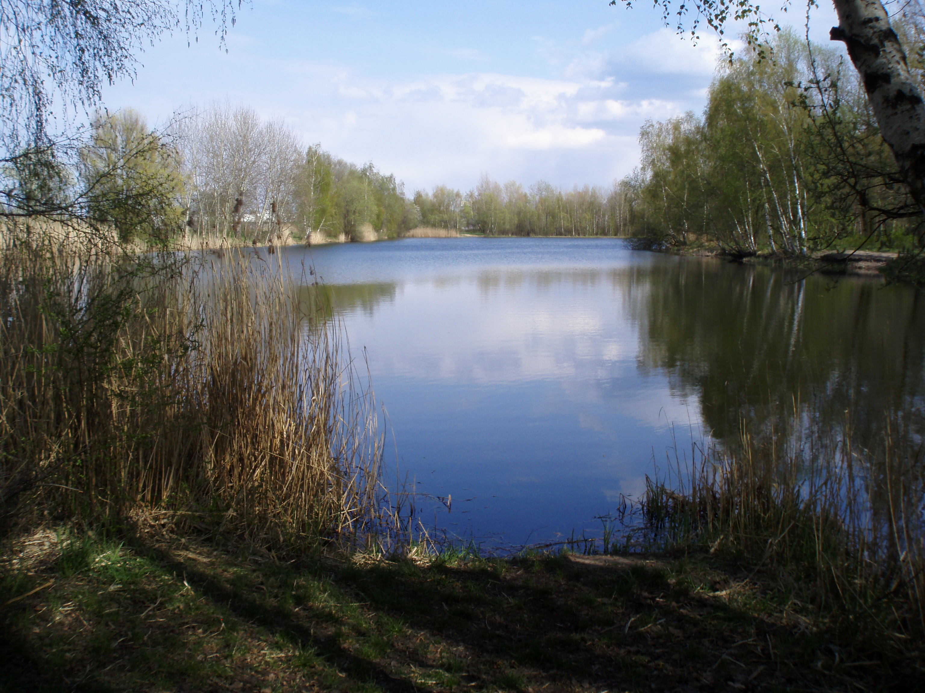 Pond "Borovinka" in Hradec Králové (Czechia)